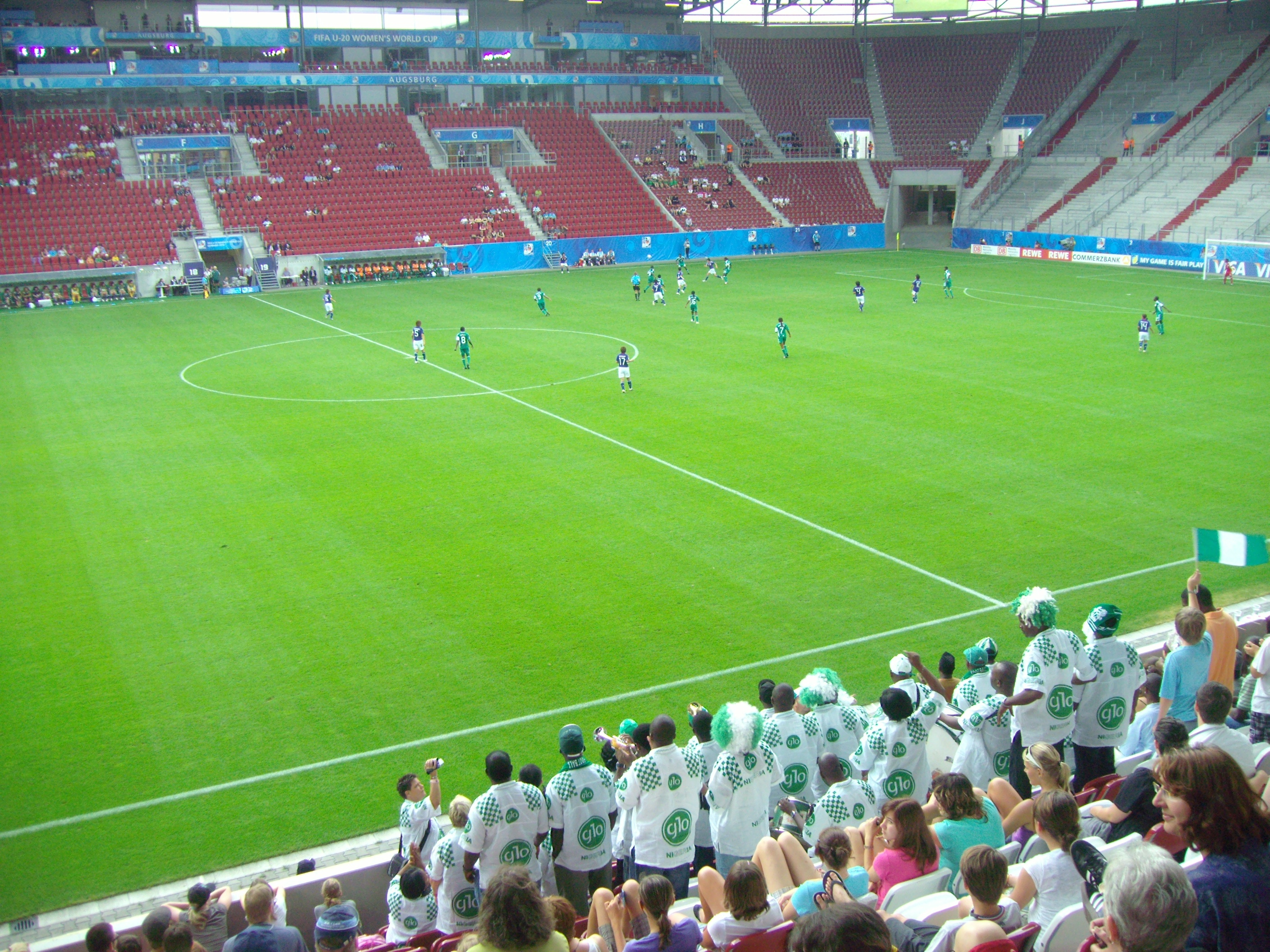 Nigeria–Japan at 2010 FIFA U-20 Women's World Cup in Impuls Arena as “FIFA Women's World Cup Stadium Augsburg”:Nigerian Fan-Group with Trumpets and Drums sings and celebrates before the Half-time. Few spectators sit at the main stand. The northern stand is not opened for spectators.